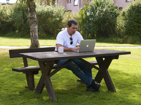 Kent Andersen writing his second novel